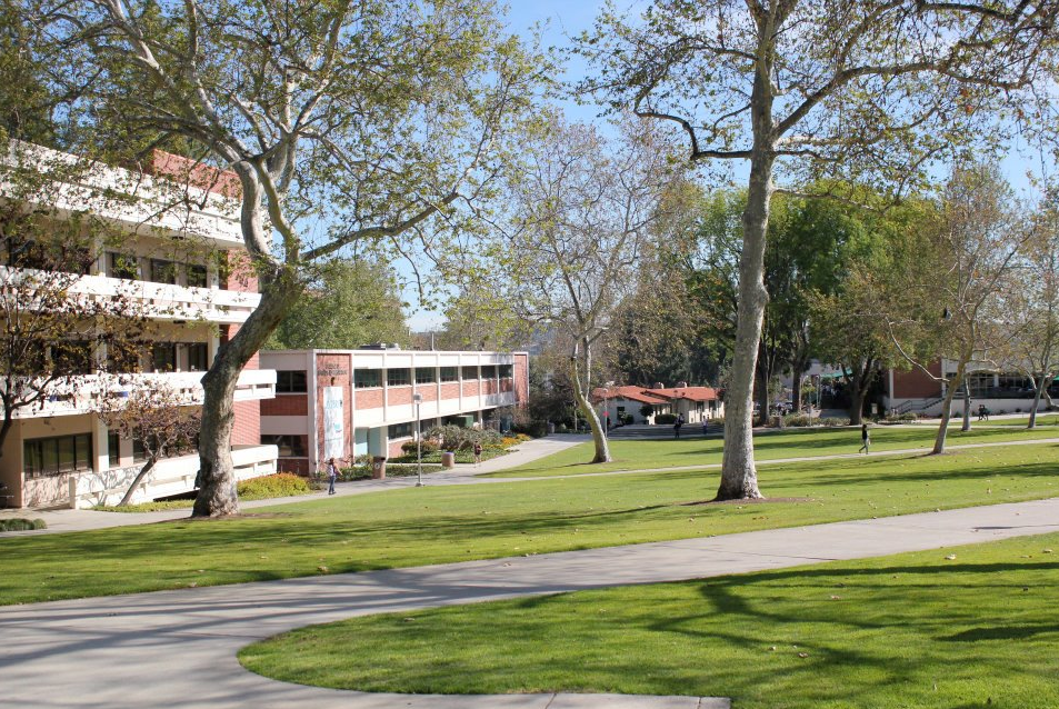 The main quad at Cal Poly, Pomona, California 91768